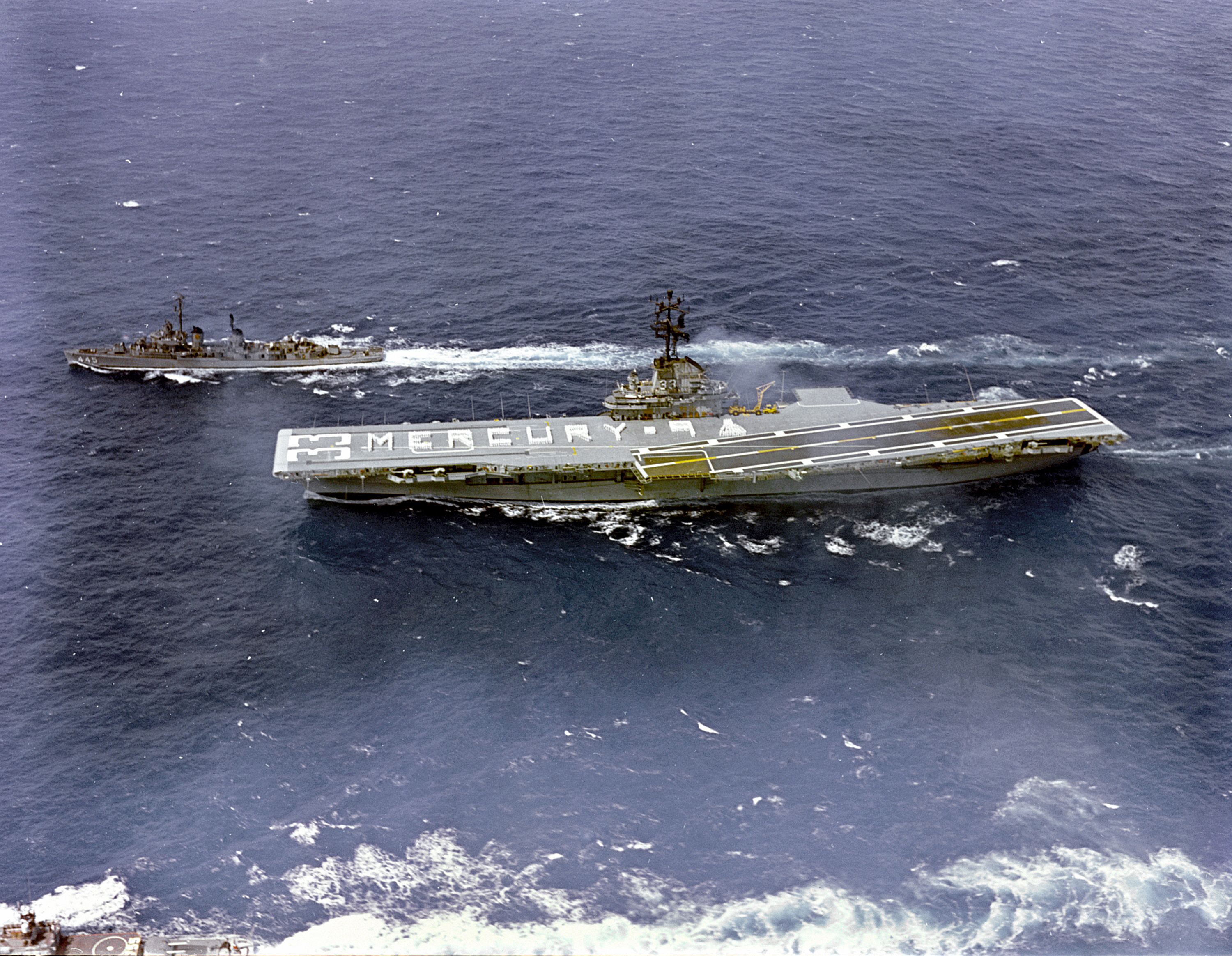 The crew of the U.S. Navy aircraft carrier USS Kearsarge (CVS-33) spells out the words "Mercury 9" on the ship's flight deck while on the way to the recovery area where astronaut Gordon Cooper was expected to splash down in his "Faith 7" Mercury space capsule. The destroyers USS Fletcher (DD-445) and USS John A. Bole (DD-755) are steaming with Kearsarge.